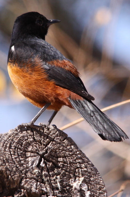 A male Mocking Cliff Chat in Mapungubwe National Park, Limpopo Province, South Africa.